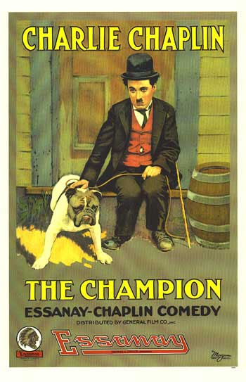 Promotional poster for the Charlie Chaplin film, The Champion (1915)